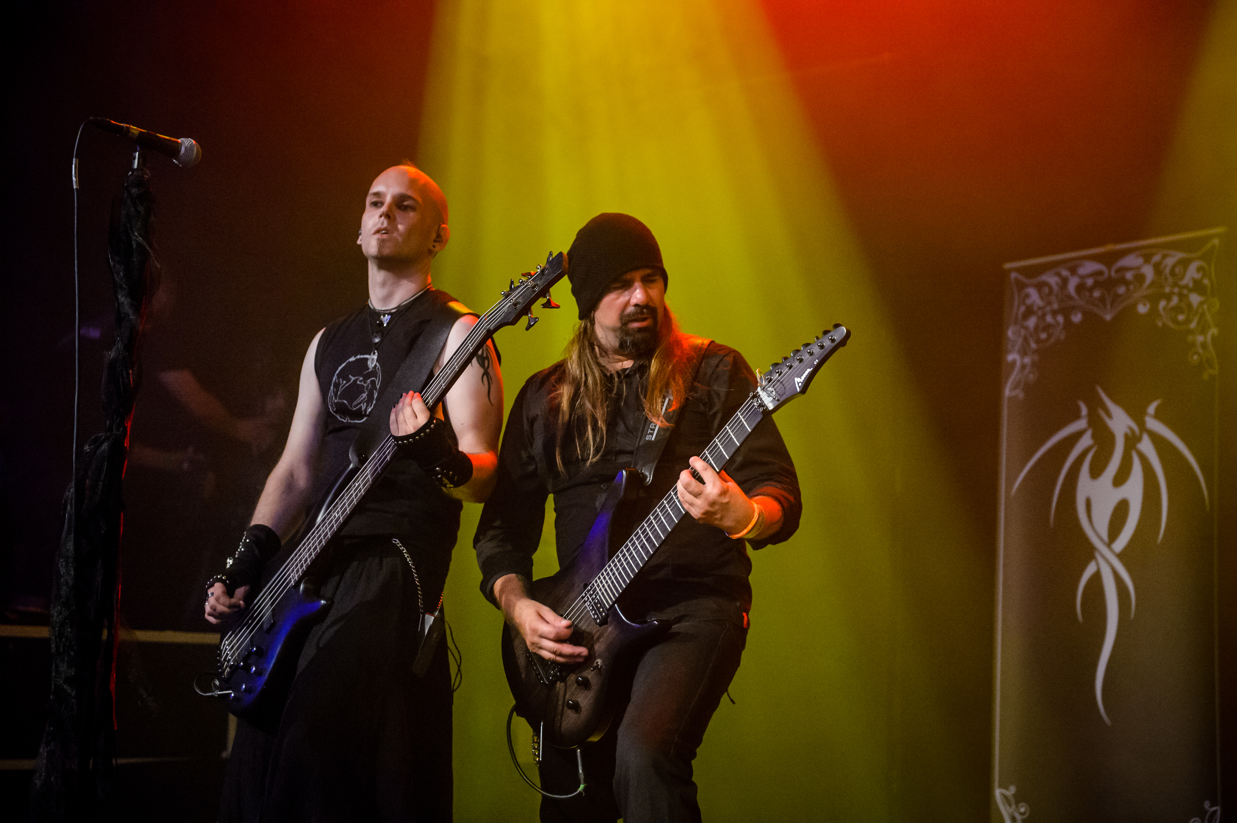 Mantus; Amphi festival 2016